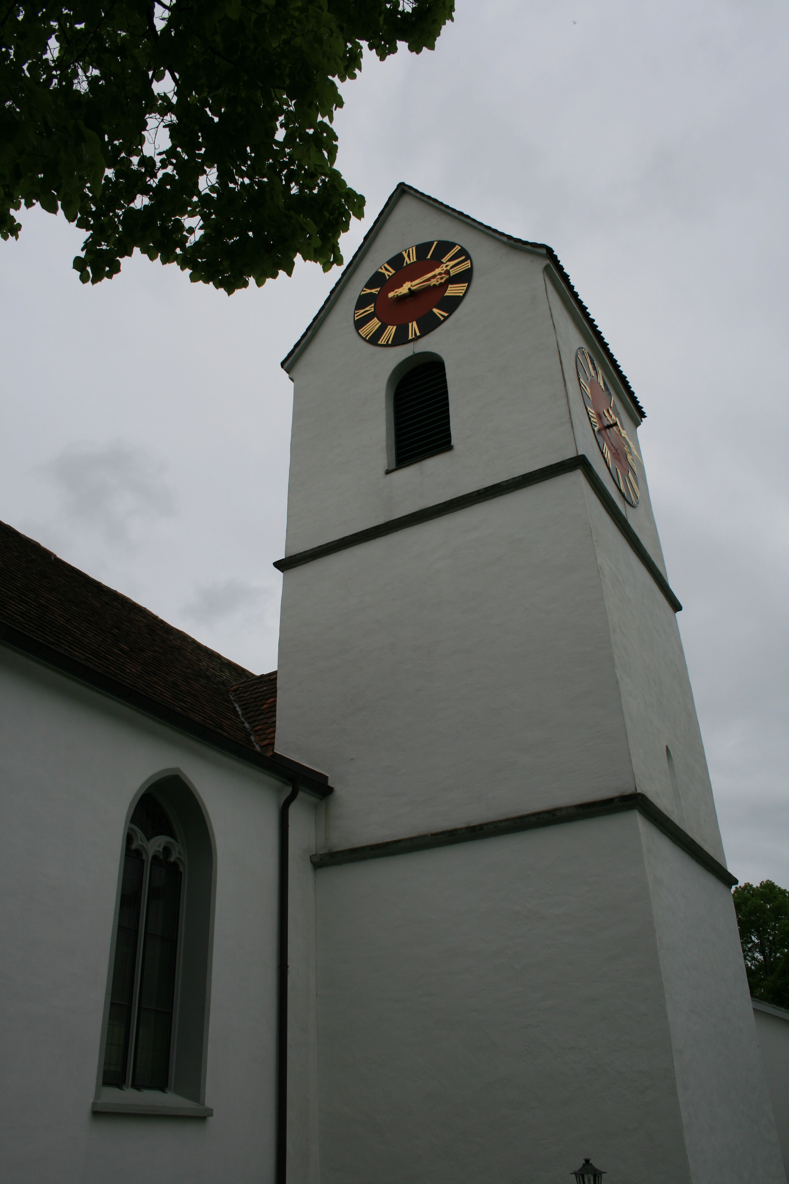 Sankt Pankratius-Church, Matzendorf SO, Switzerland